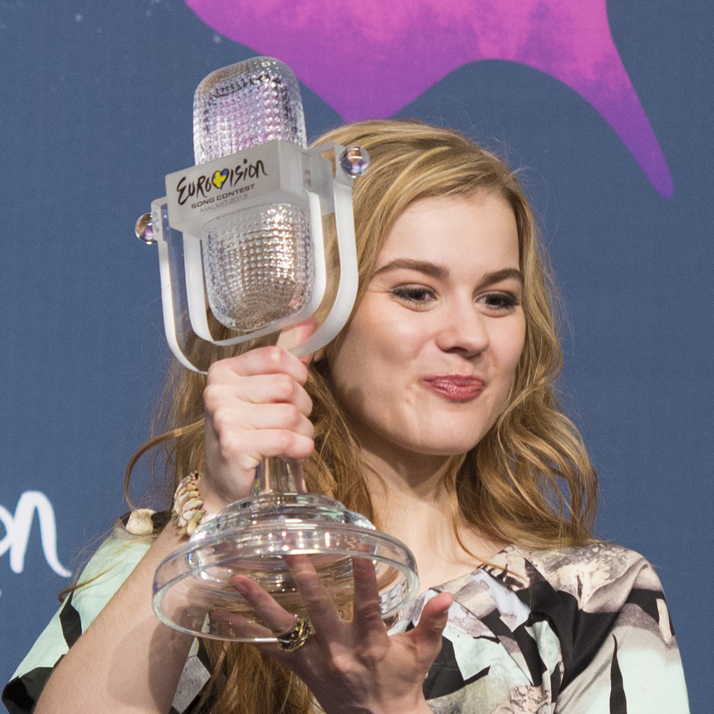 Emmelie de Forest at the winners press conference, right after winning the Eurovision Song Contest 2013 in Malmö. (Help translate this text)